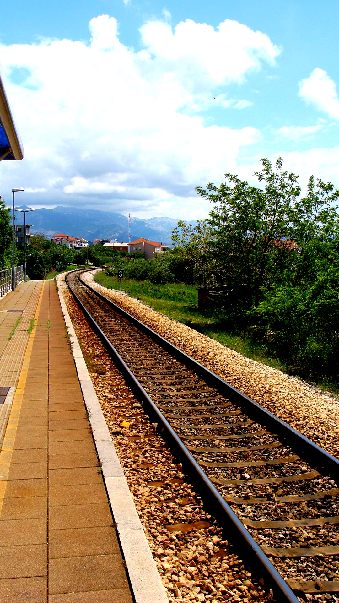 The train station of Kaštel Kambelovac in Croatia. Spring 2014.